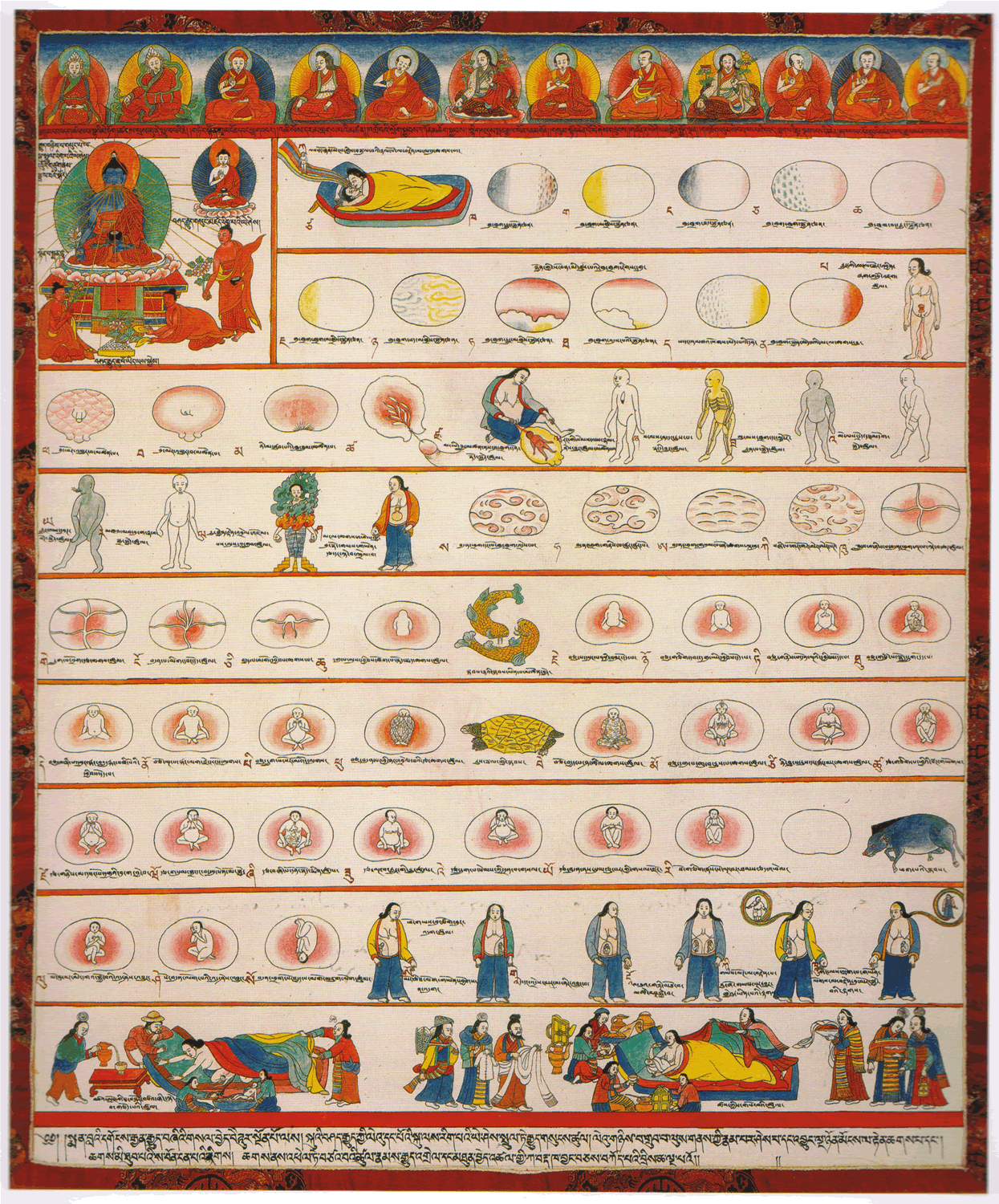 Illustration of the Blue Beryl Treatise by Sangye Gyamtso (1653-1705)